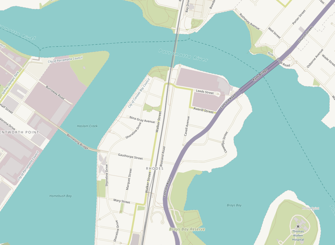 A map of the Parramatta River around the Rhodes peninsula and Rhodes, New South Wales, to help illustrate the proposed locations for the Rhodes ferry wharf. This map may be incomplete, and may contain errors. Don't rely solely on it for navigation.